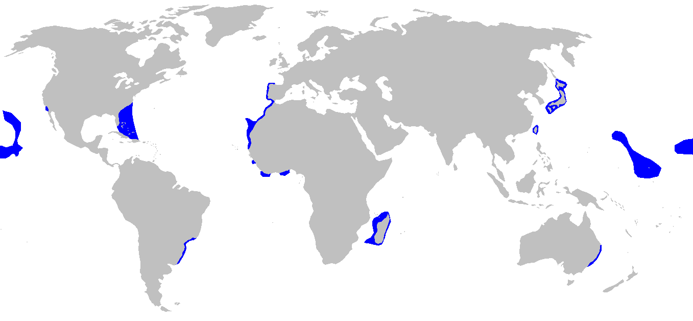 Distribution map for Isurus paucus